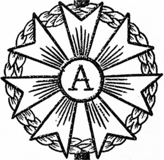 The logo of the Aurelian Honor Society